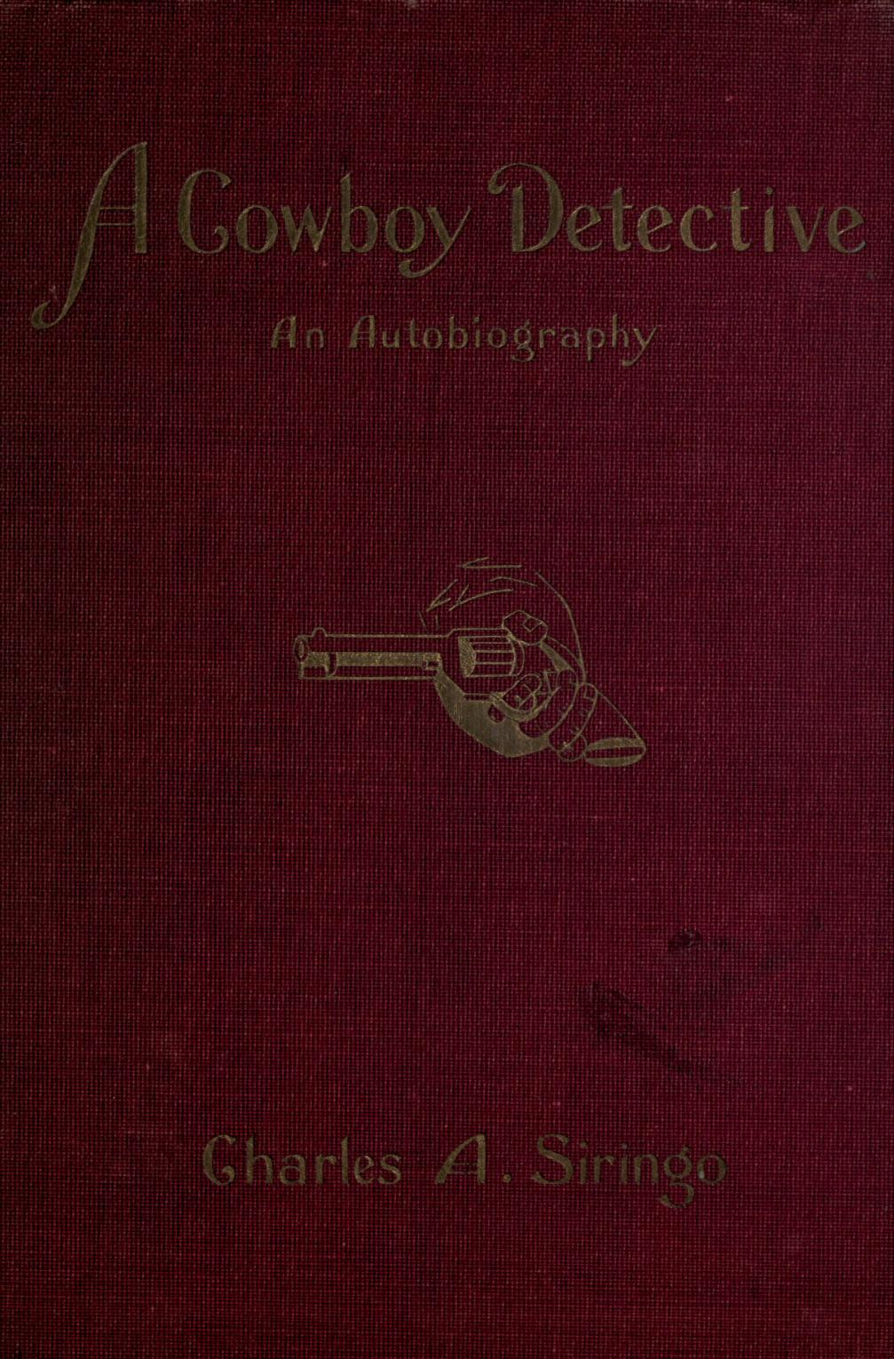 From: C. Siringo. A cowboy detective: a true story of twenty-two years with a world famous detective agency (1912)